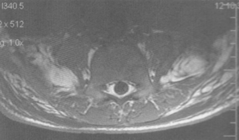 MRI with B0 inhomogeneity. For context, see: MRI artifact